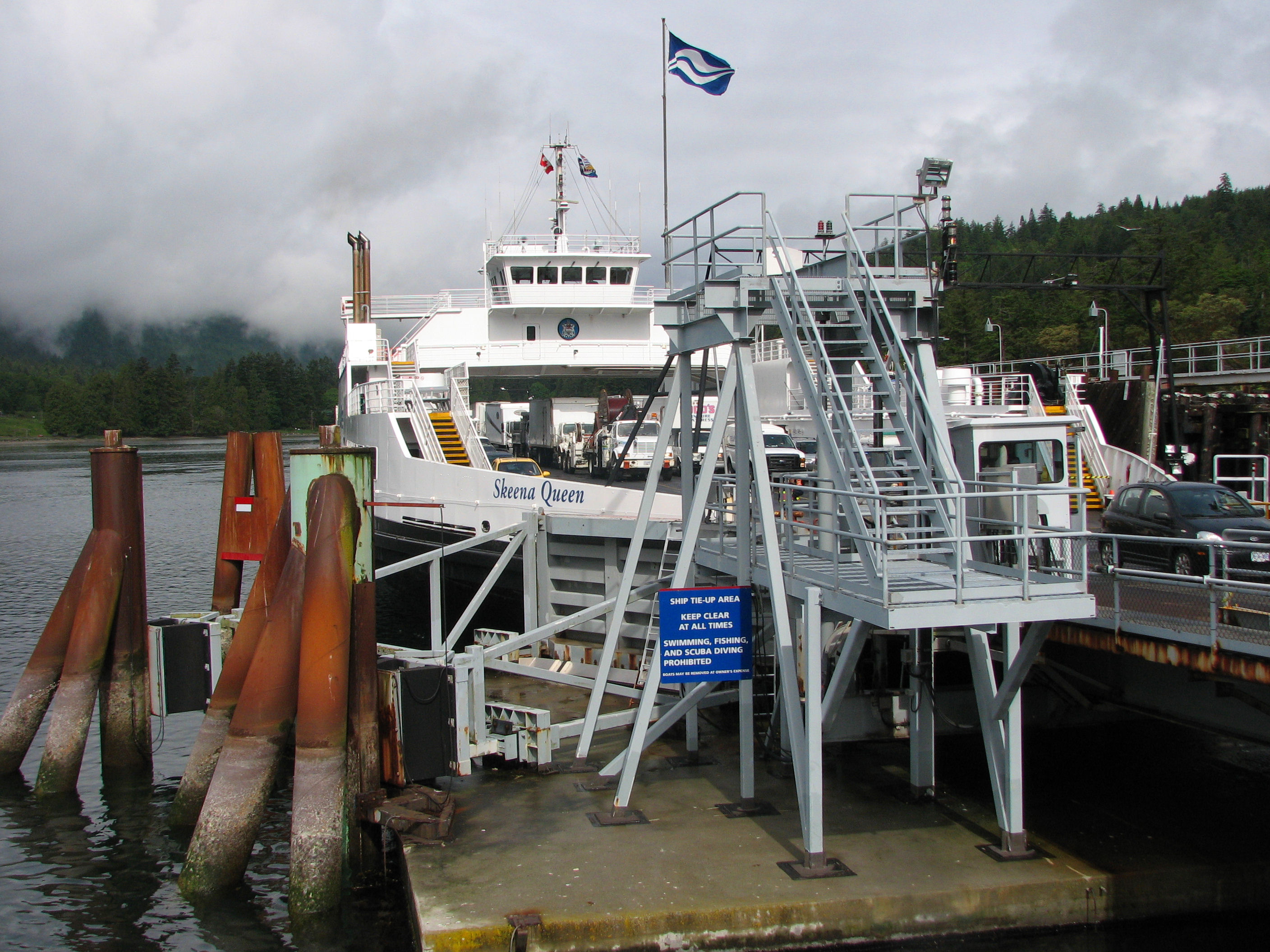 Skeena Queen vehicle and passenger ferry, loading cars at Fulford Harbour, Salt Spring Island, British Columbia